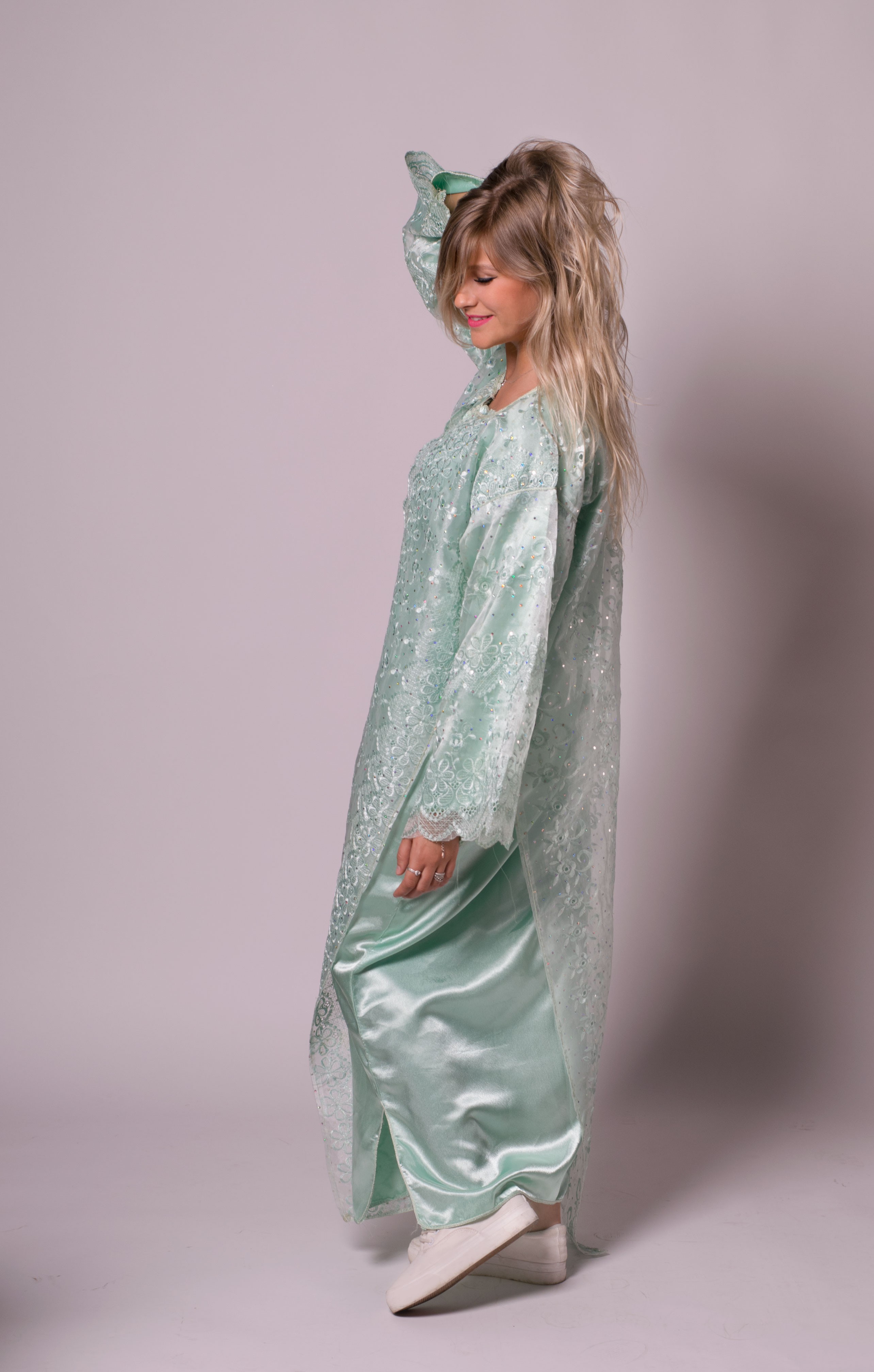 Traditional Morocan Silk Kaftan turquoise color On woman model - standing